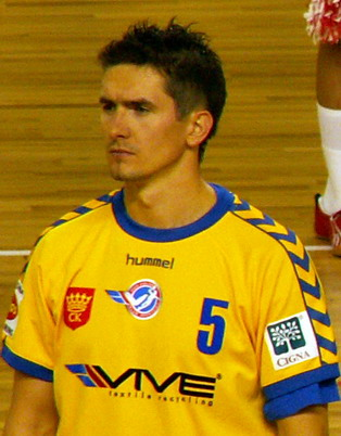 Wojciech Zydroń - Vive Kielce handball player